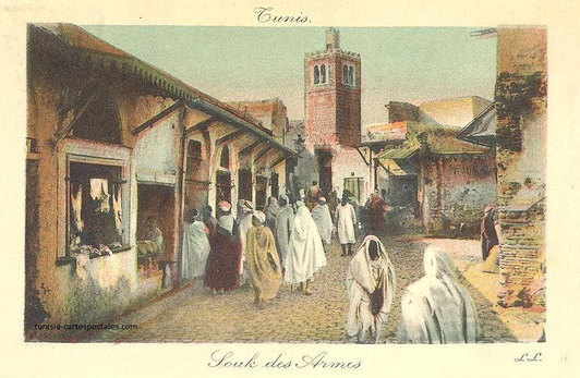 Old postcard showing the souk of arms